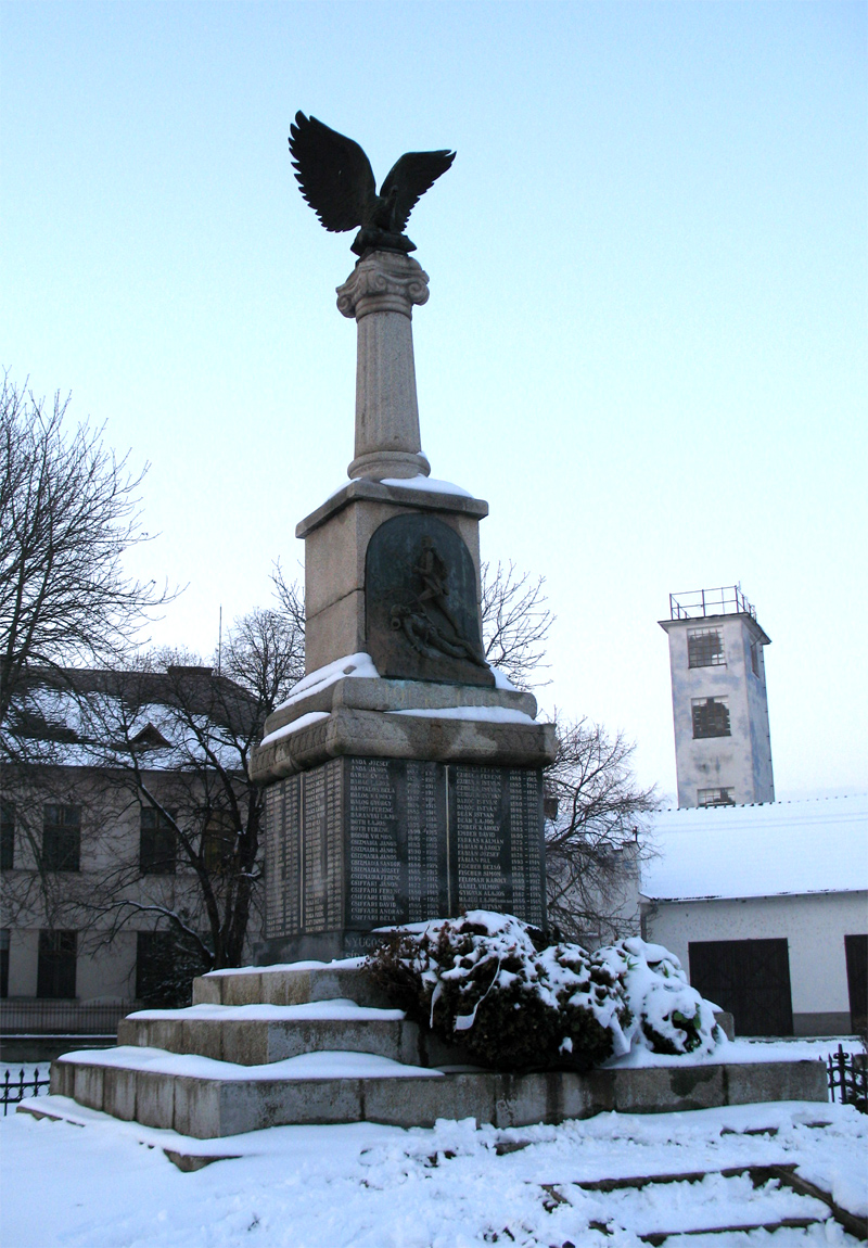 war memorial of Vlčany